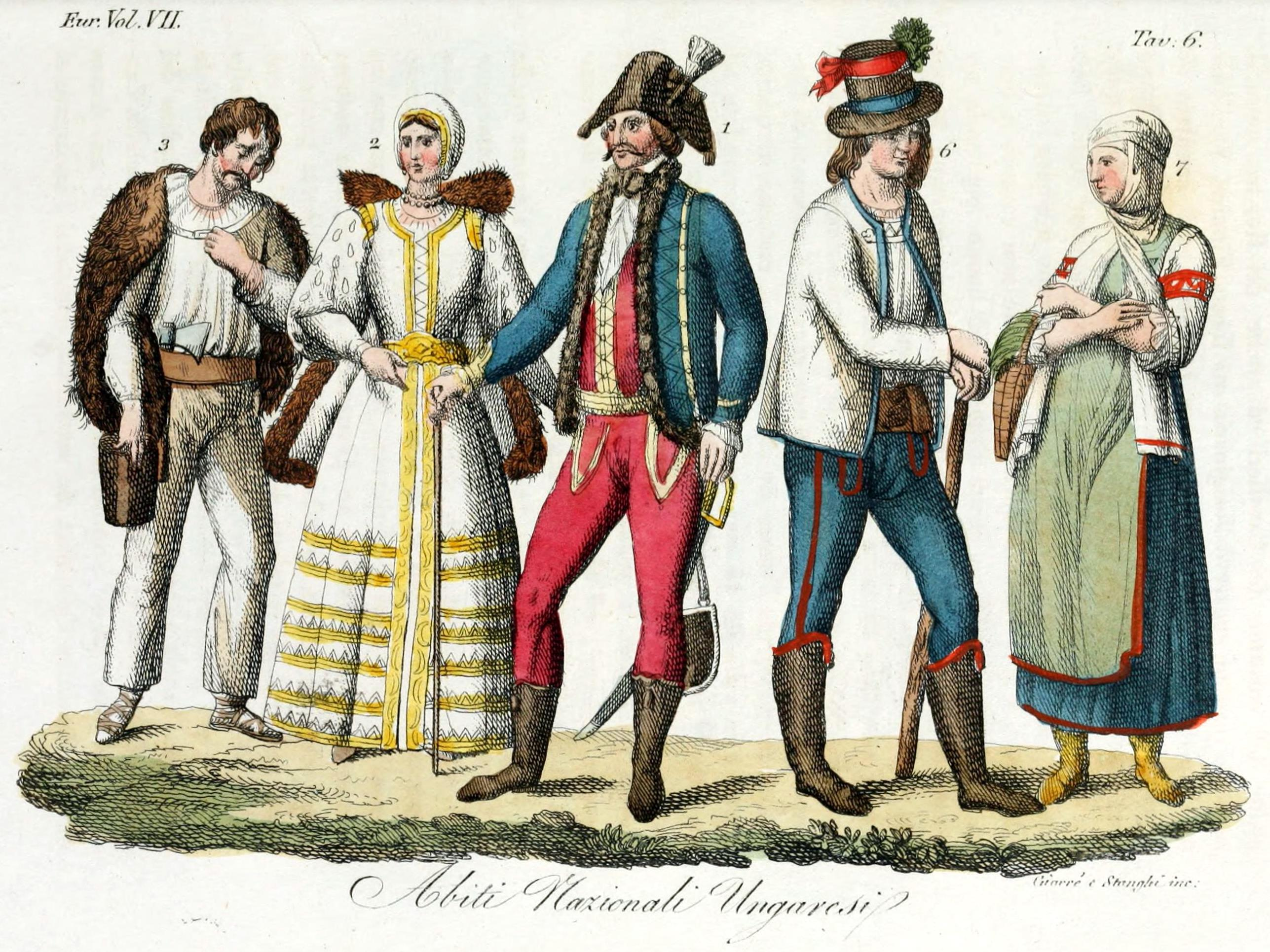 Hungarian traditional dressing (XIX century) 1. A lord 2. A lady 3. Shepard from Symeg o Szumegh 6-7. Peasants from Neutra